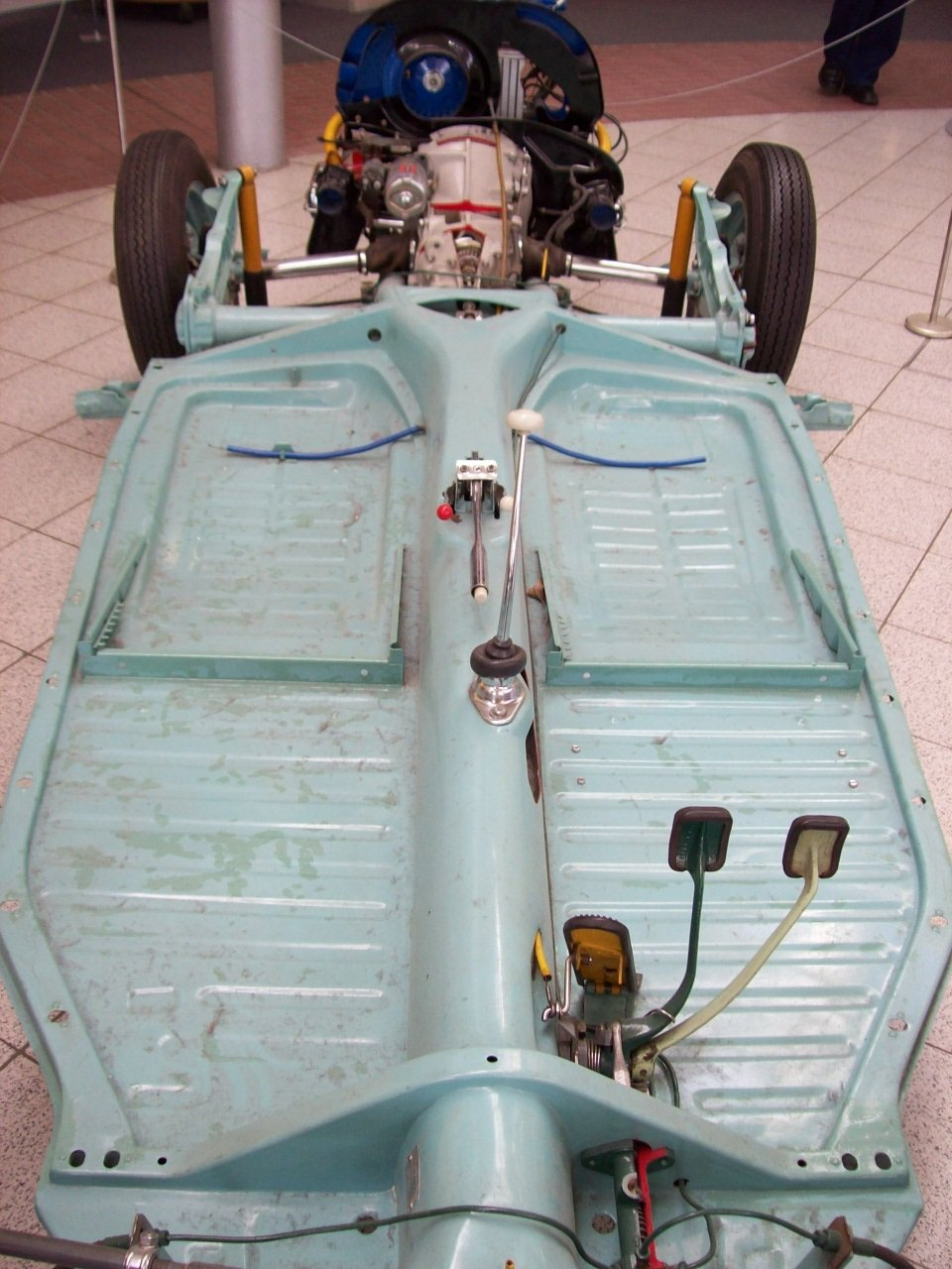 1966 VW-Käfer 1300: back engine and pan